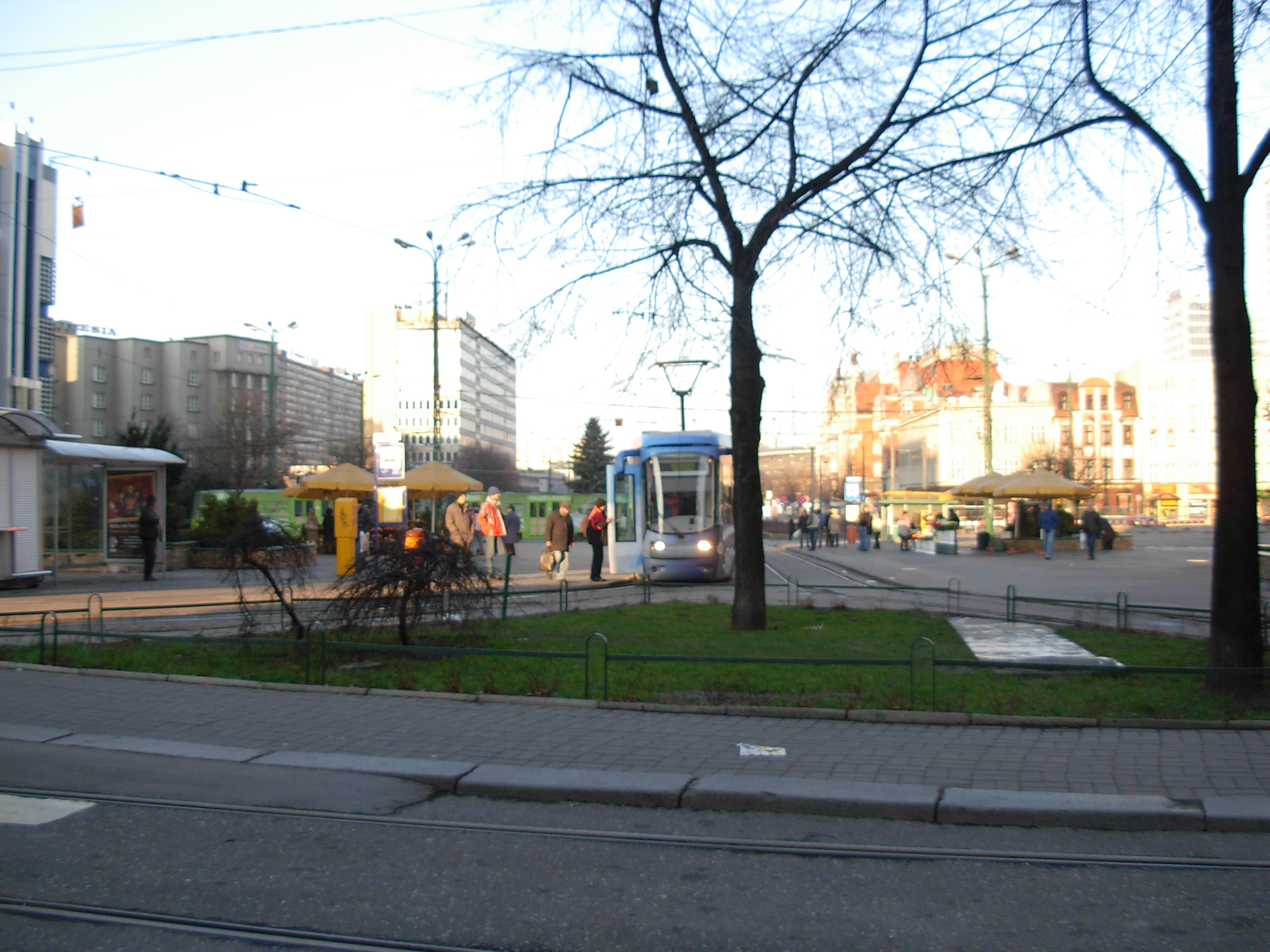 Photo by myself, Dec'06. Market square in Katowice.